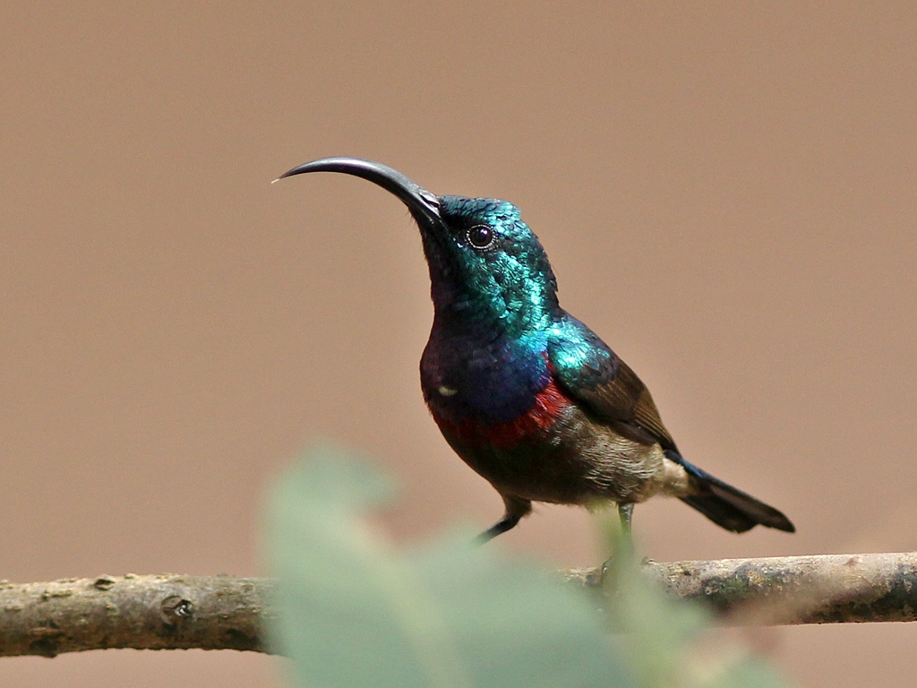 Here one can see the maroon breast band. The adult male is mainly glossy purple with a grey-brown belly.